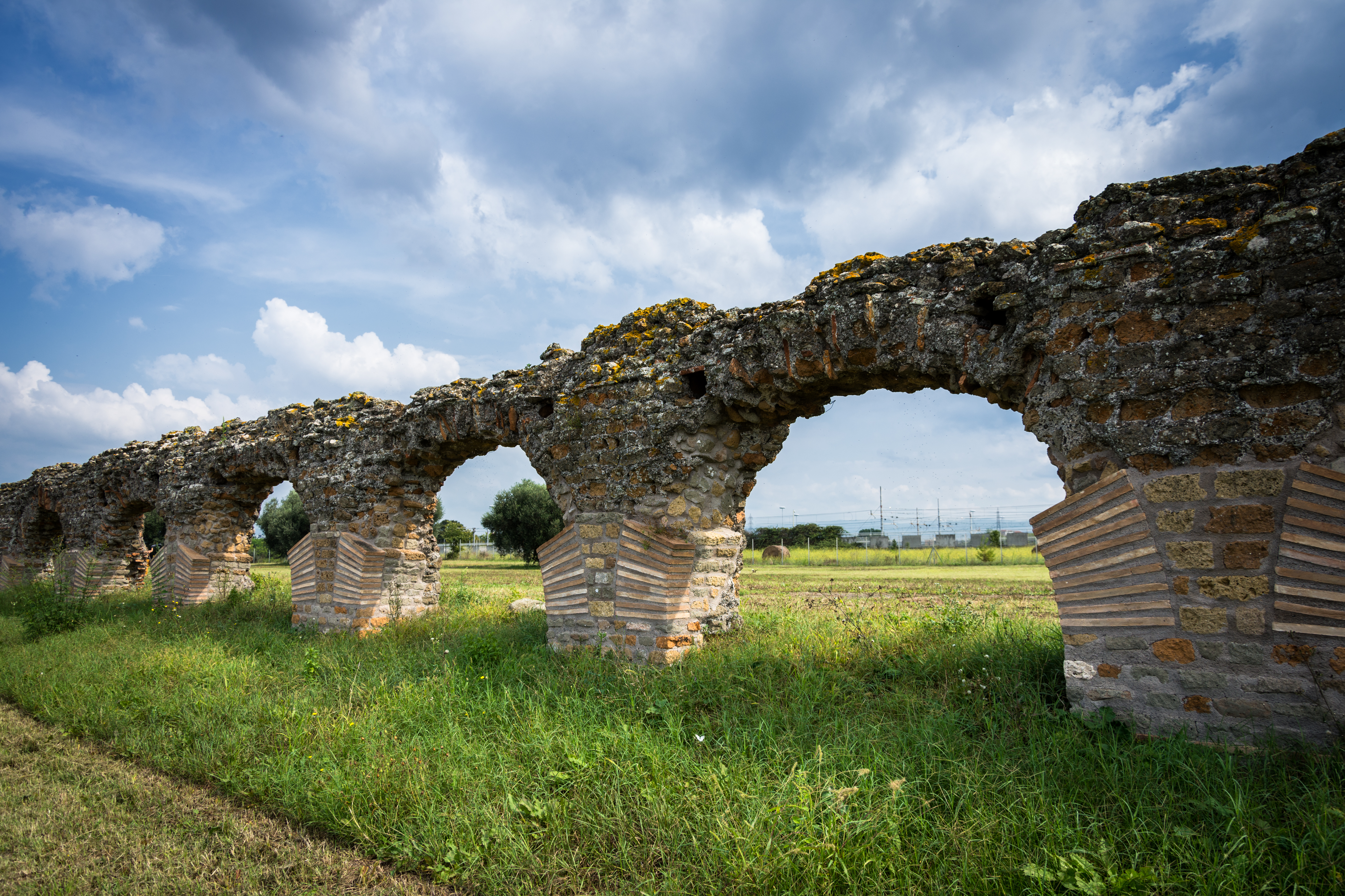 This is a photo of a monument which is part of cultural heritage of Italy.